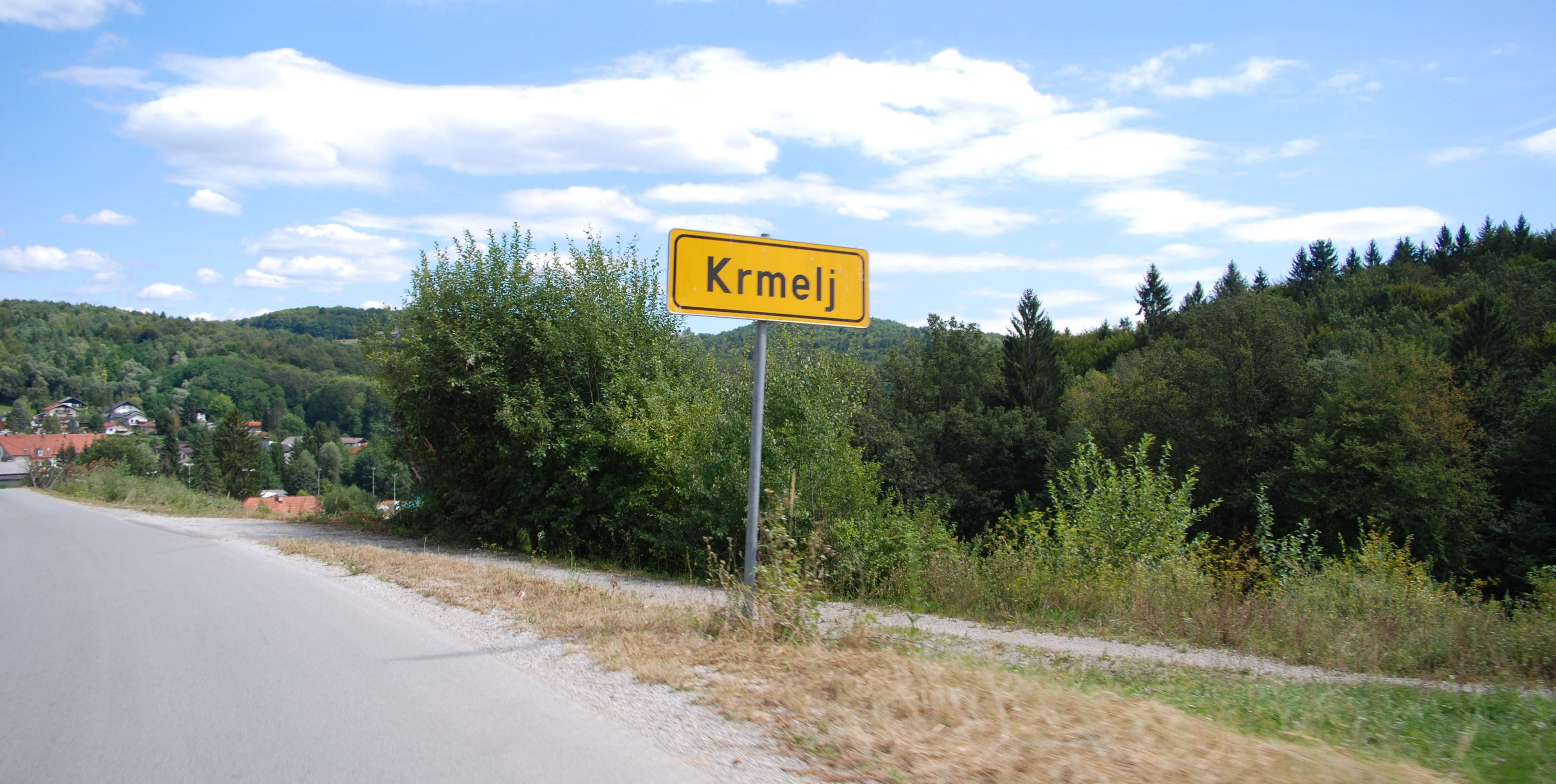 Krmelj, place name sign.